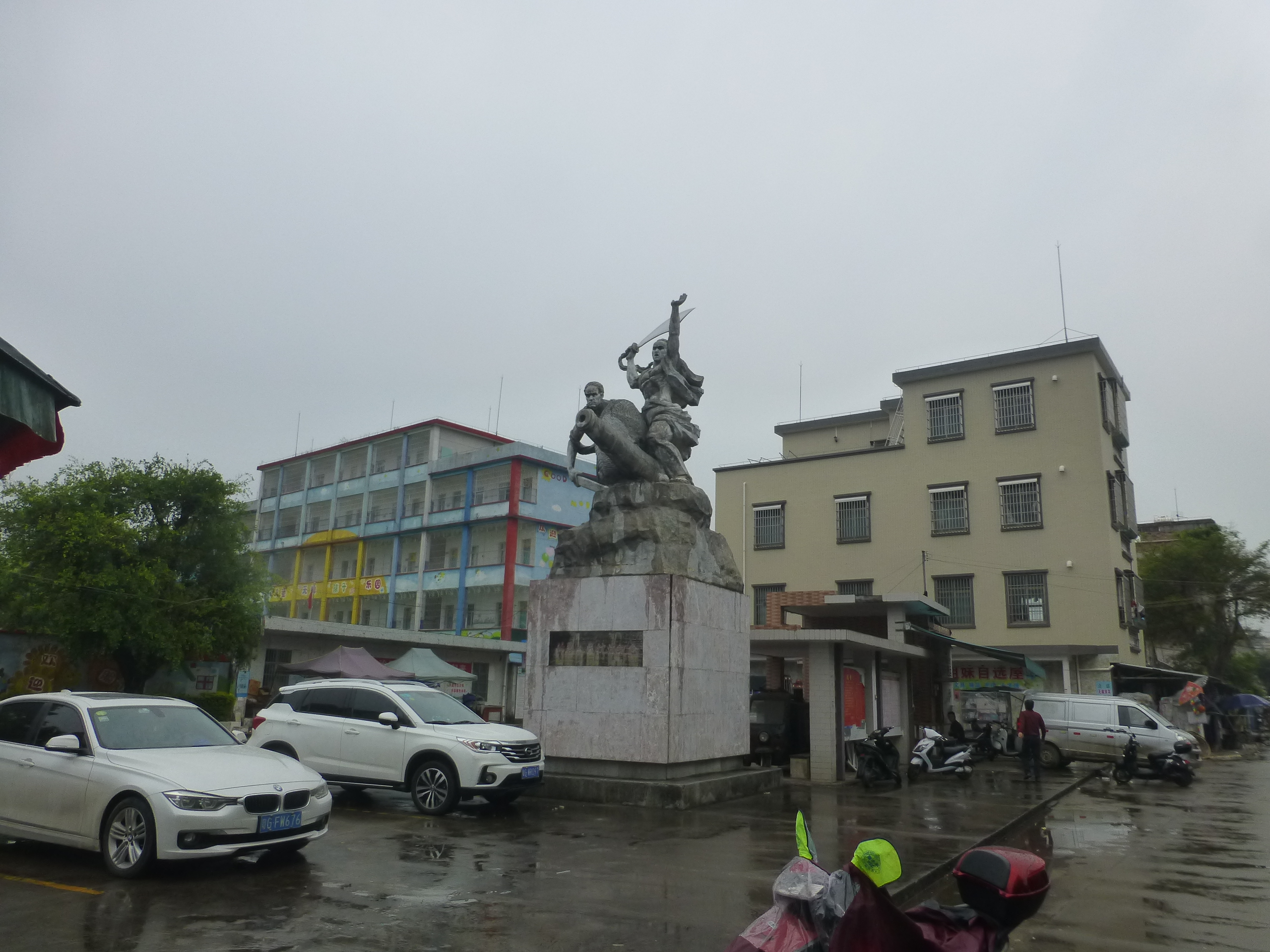 The central square of Huanglüe Town (Suixi County, Zhanjiang City), with a monument to the People's Resistance to the French.